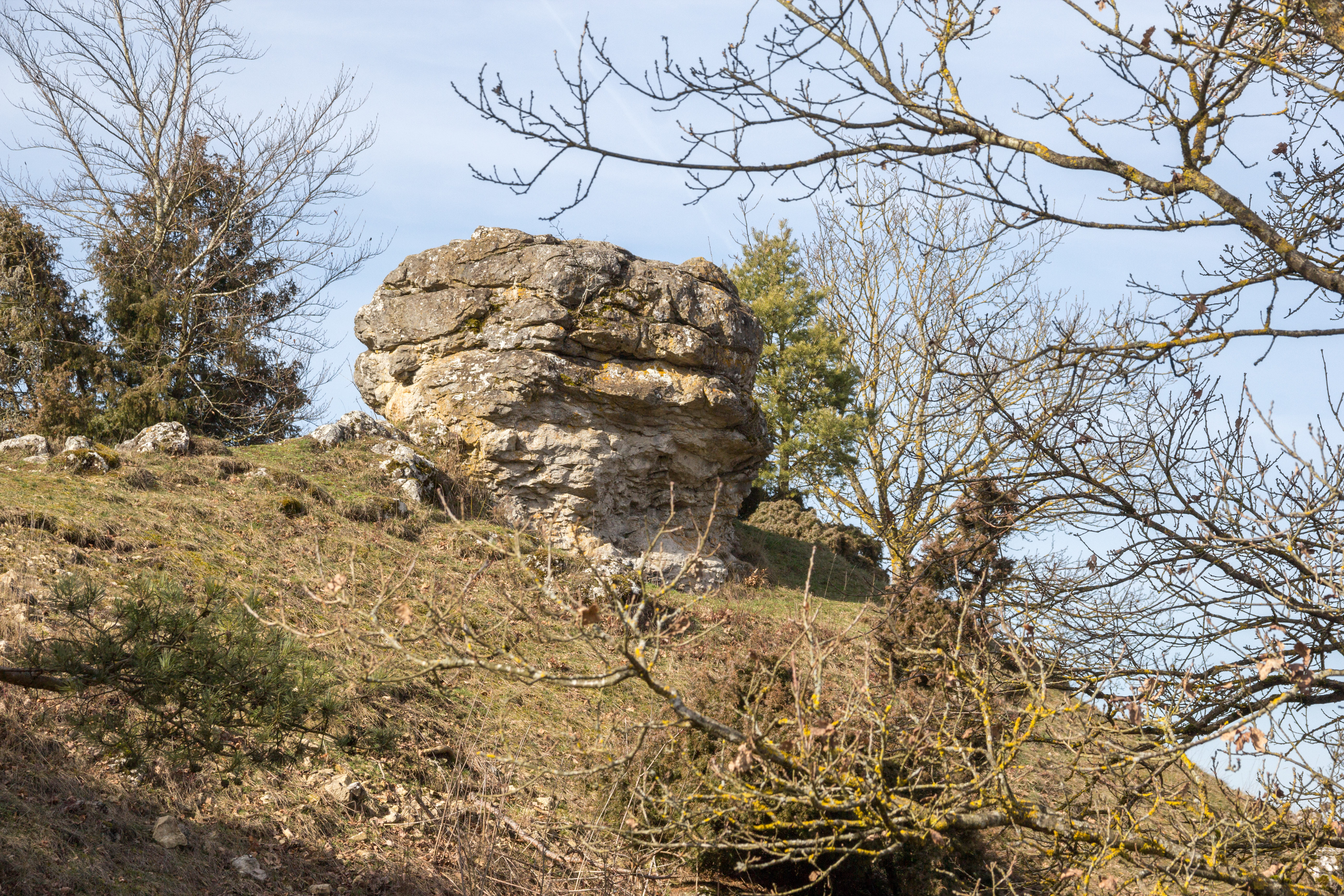 Teufelskanzel, Solnhofen, Geotop